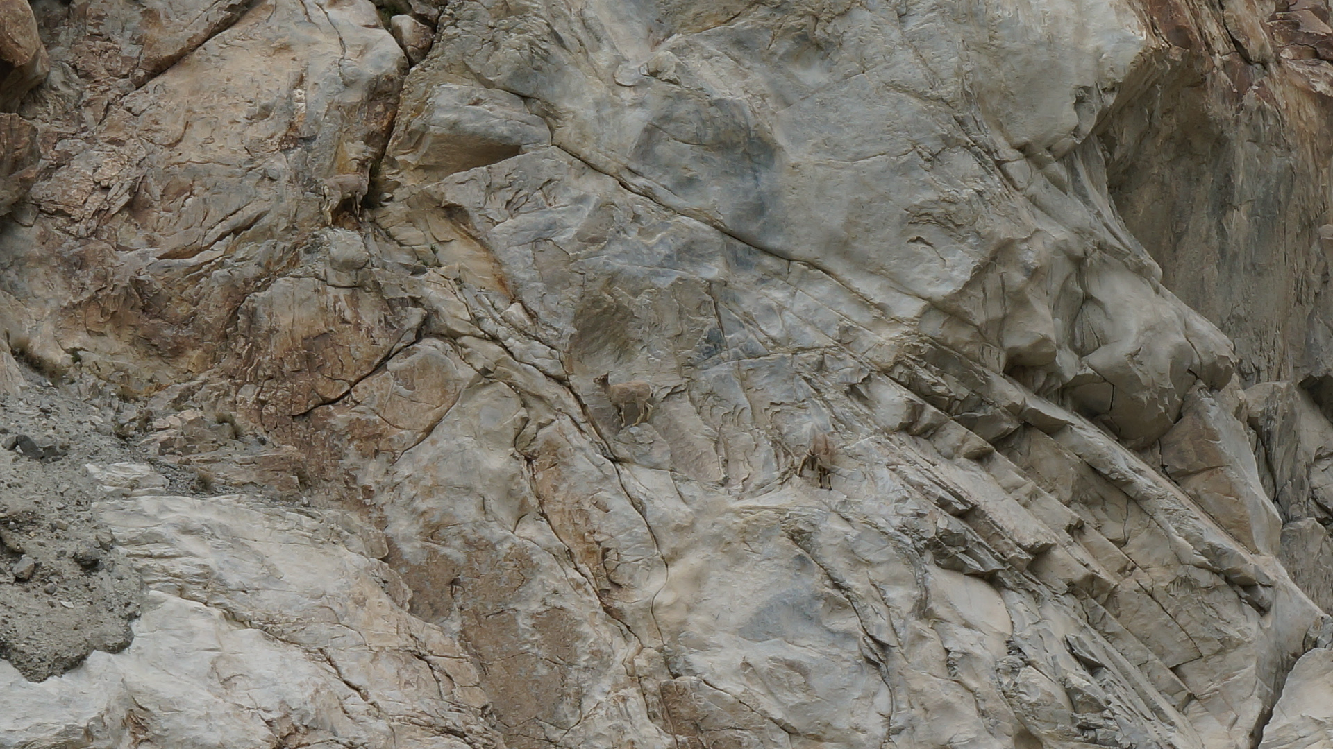 this photograph is of Asiatic Ibex clicked on my way to Pangong lake in the ladakh region of Jammu and Kashmir (India).